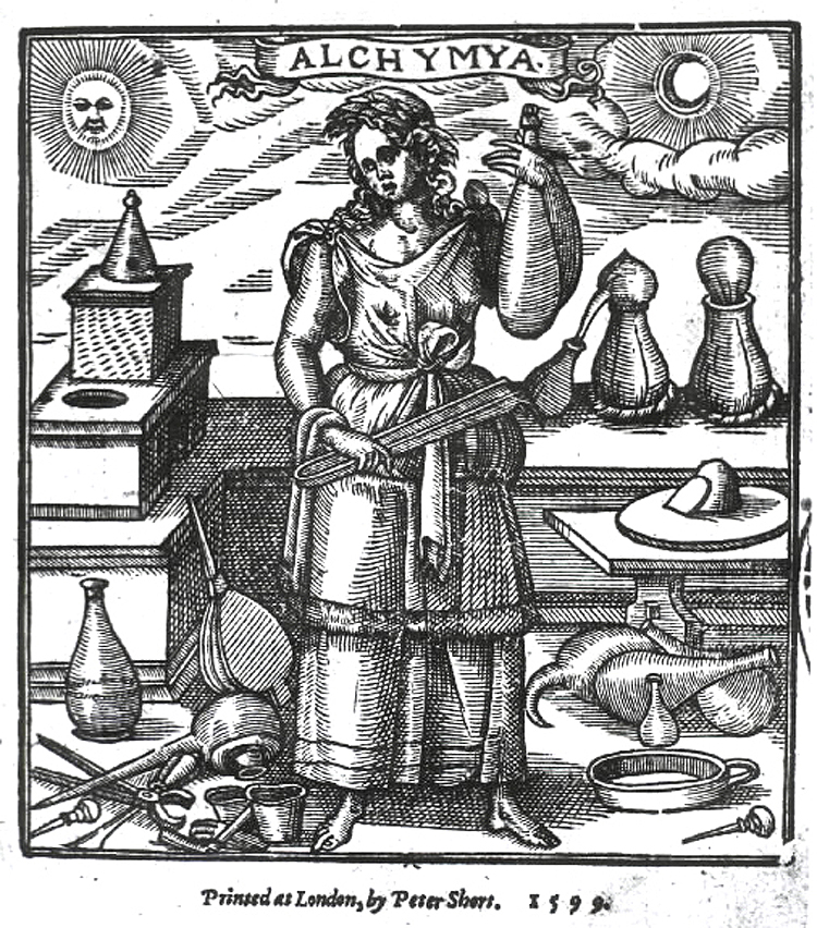 Alchemst at work, from: Konrad Genser: The practise of old and new phisicke, 1599